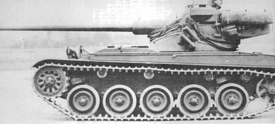 M51 tank (AMX) with 75-millimeter high-velocity gun, left side view